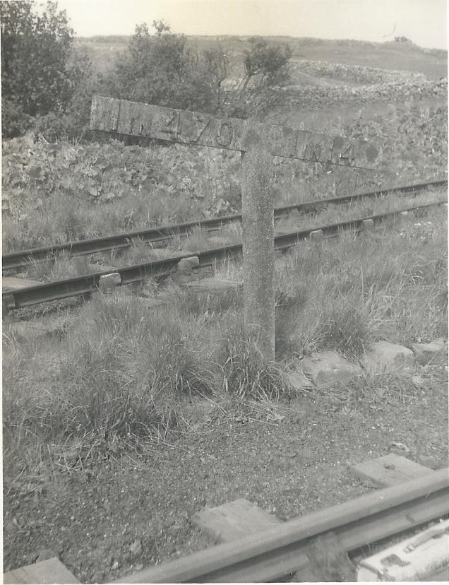 Gradient Post at the top of the Hopton Incline